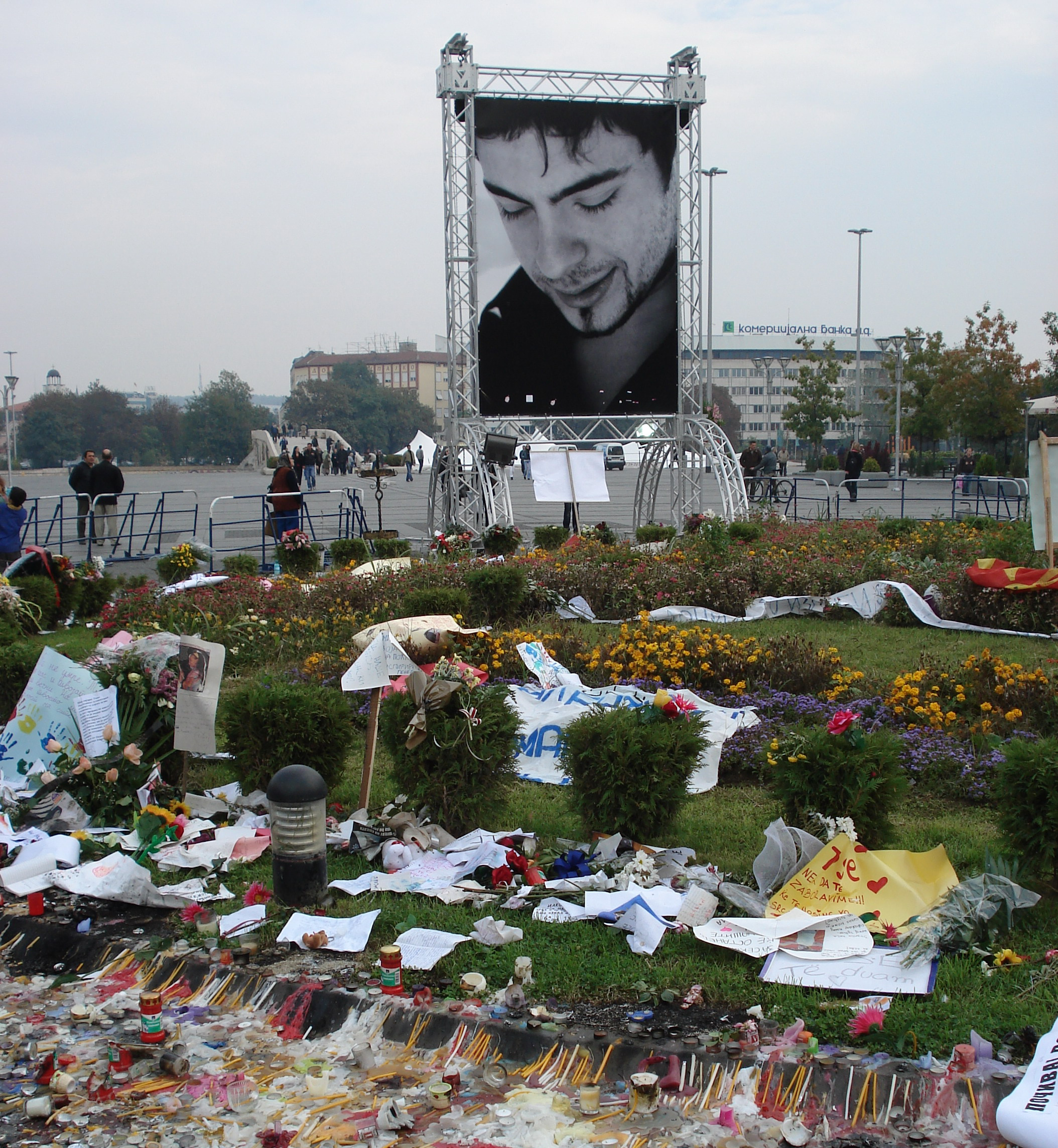 Citizens of Skopje, Macedonia in memory of Toše Proeski after his death, Macedonia Square, Skopje, photographed 19 October 2007. I myself am the author. Licence: free